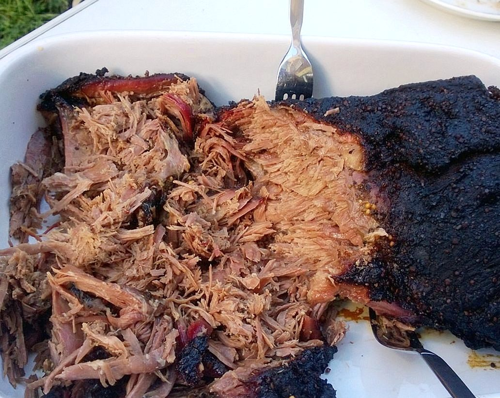 pulled beef from the bbq-pit